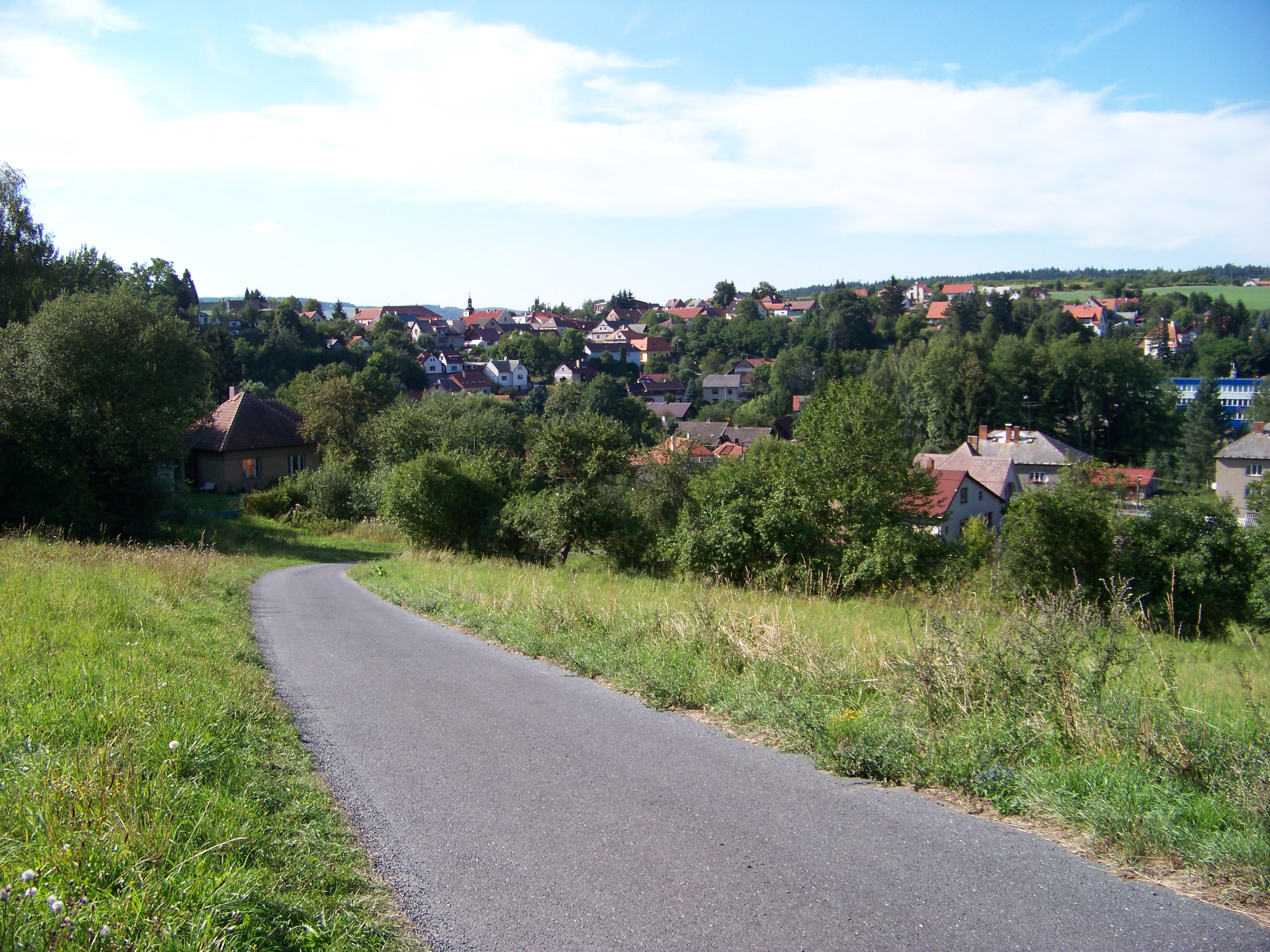 Stříbrná Skalice, Prague-East District, Central Bohemian Region, the Czech Republic. Seen from Na Čapík street. - OpenStreetMap(Info)